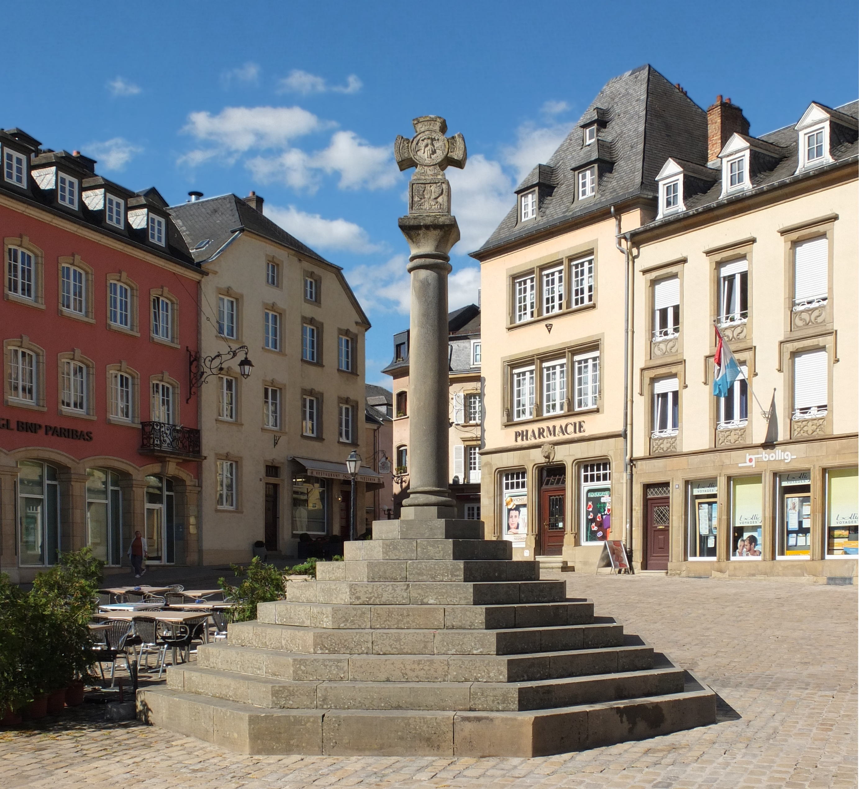 Justice cross in Echternach, Luxembourg